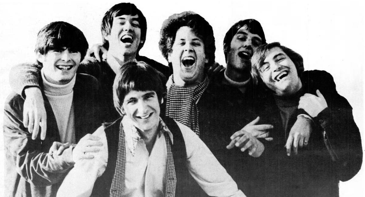 Trade ad for The Turtles's single "Happy Together".To better adapt it to his respective Wikipedia article, the ad was cropped and cleaned in a graphics editing program. The original can be viewed at the source below.